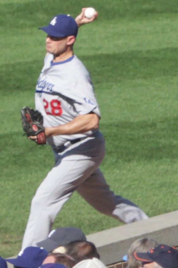 Jamey Wright for the 2014 Los Angeles Dodgers against the 2014 Chicago Cubs at Wrigley Field.